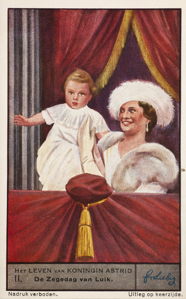 Liebig Chromos. Trade card. Series 1346B, The life of Queen Astrid of Belgium, no 5. 1936. Private collection Paul MR Maeyaert. 11 x 7,1cm. ; Ref: PM_110547_Liebig_Chromos; Cultural heritage; Cultural heritage|Techniques|Postcard trade card; Europe|Belgium. Text on reverse: HET LEVEN VAN KONINGIN ASTRID; De Apotheose van Luik. 11; Wij hebben in een vorig plaatje aan de Lente-dagen van 1935 herinnerd, toen de eerste officieele bezoeken onzer Vorsten plaats vonden. Hun blijde intrede te Antwerpen (April), werd gevolgdoor die van Luik, op 9 Juli.; Deze dappere stad beleefde dien dag een grenzelooze geestdrift, die ten toppunt steeg toen de lieve Koningin, van op den hoogen trap van het stadhuus, het laatst geboren Prinsje aan de menigte toonde, die door een gelukkige Koninklijke en vaderlijke beslissing, den titel van Prins van Luik gekregen had.; Het was het meest roerend oogenblik van dien dag, waarop volk en Vorsten in een zelfde gedachte communiceerden. Geen twijfel dat zij toen de zaligste en meest aanmoedigende uren van hun openbaar leven doormaakten. Ontrvangsten ten stadhuize en in de kathedraal, een doortocht onder een bloemenregen te midden van het gejubel eener begeesterde bevolking en Waalsche hartelijkheid. Herhaaldelijk was de koninklijke stoet tot oponthoud gedwongen. Het waren koortsige uren, gedurende dewelke heel het volk het lieve gebaar van een jonge en schoone Koningin beantwoordde, die haar mooi kindje toonde.